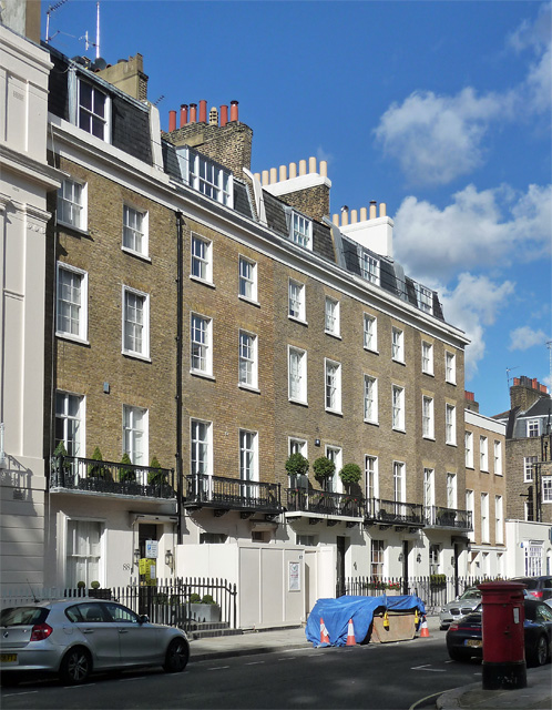 84-88 Chester Square